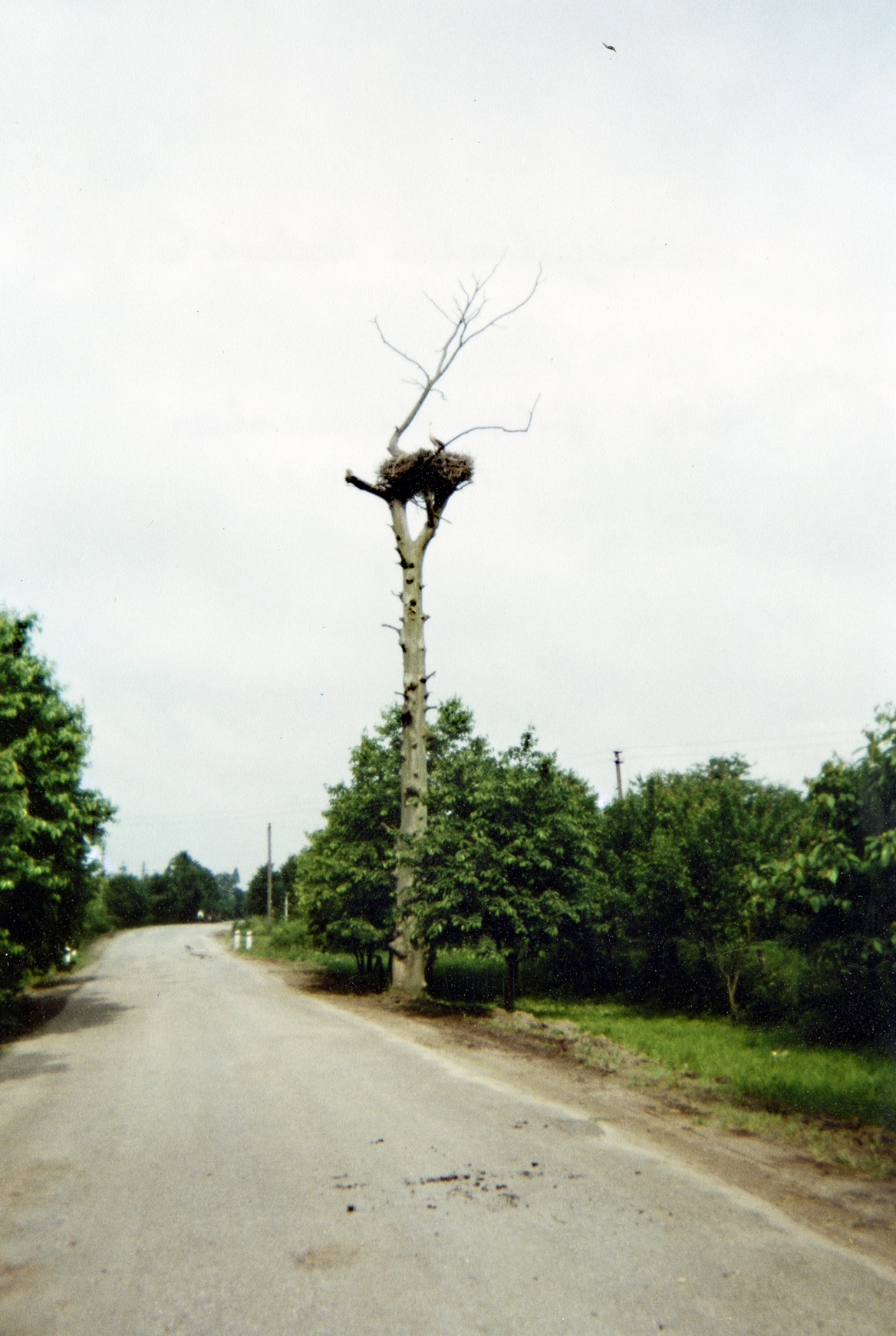 Šukė village, Kretinga district, LithuaniaLietuvių: Šukės kaimas, Kretingos rajonas, Lietuva